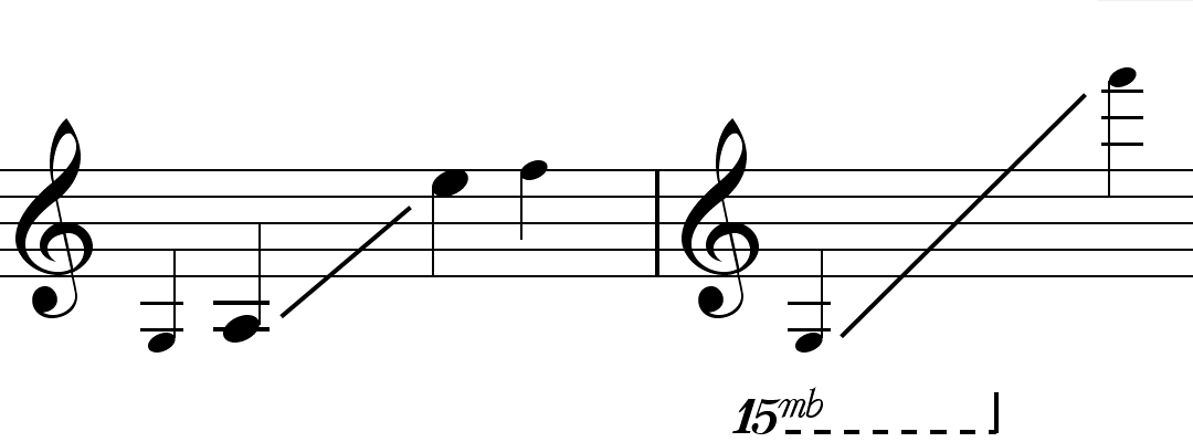 Hydraulophone - water flute: Extended playing ranges for a diatonic 12-water-jet hydraulophone. The standard A to E range, in which it is possible to play with polyphonic embouchure on any or all diatonic notes at the same time, is shown on the left side. When playing monophonically, some additional notes are possible on certain hydraulophones, indicated here by small cue notes. Left, the extended notes come from depressing the key changer, sharpener, and flattener. To play a low G, one must be playing in C minor (with Ab) and depress the flattener simultaneously. When playing on the high E jet, depressing the sharpener produces an F. Right, the additional extended range from the two octave-changers (up to two octaves down, or one octave up).